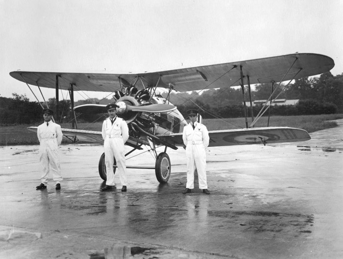 Douglas Bader, Fl.Lt. Harry Day and Fl.Off. Geoffrey Stephenson. Training for the 1932 Hendon Air Show